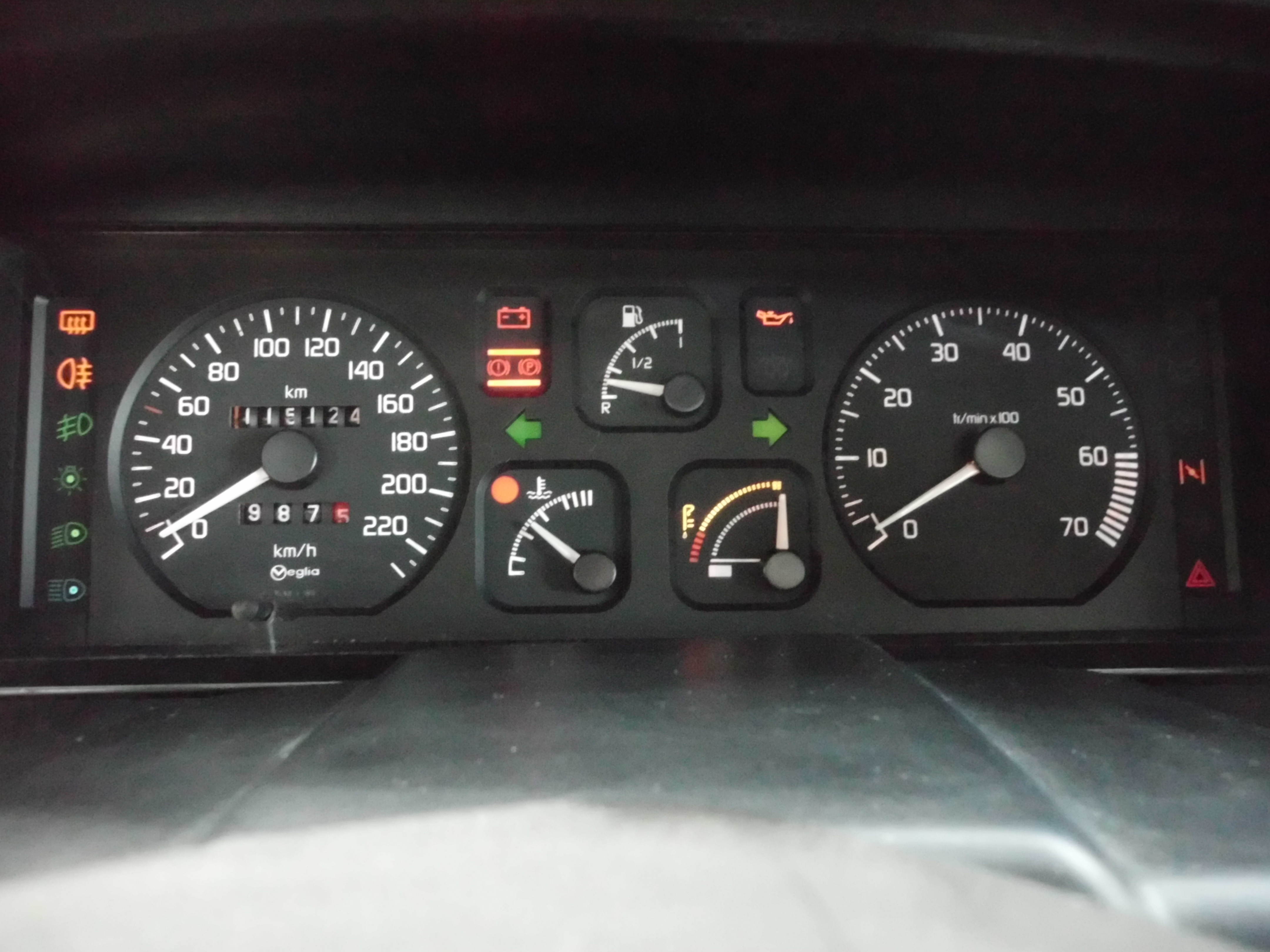 Dashboard of an 1994 Renault 19 PH2 (L53B) with F3NL740 Engine The Choke Symbol is noramly not used with this Engine.